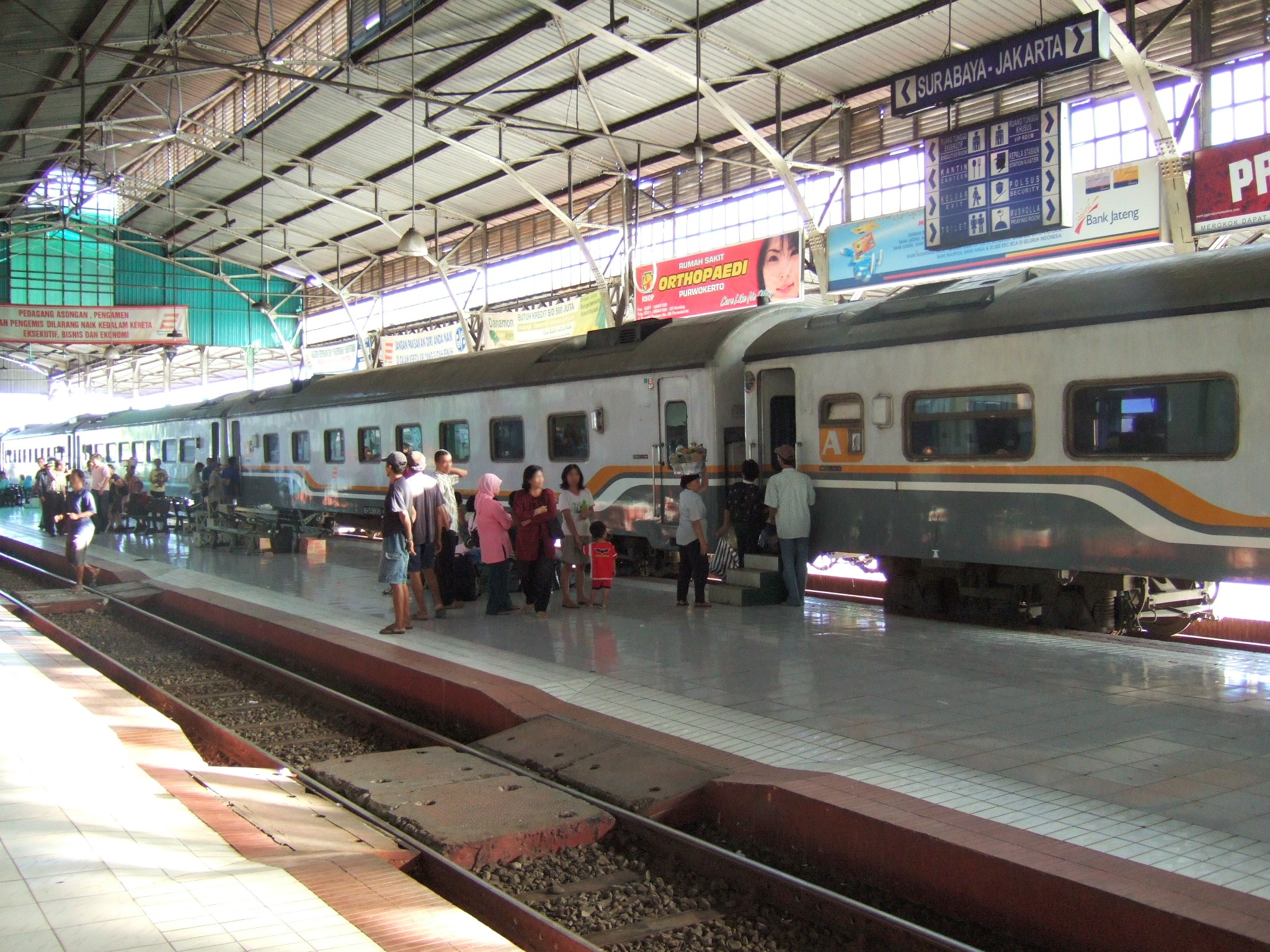 Purwokerto Station, Central Java, Indonesia